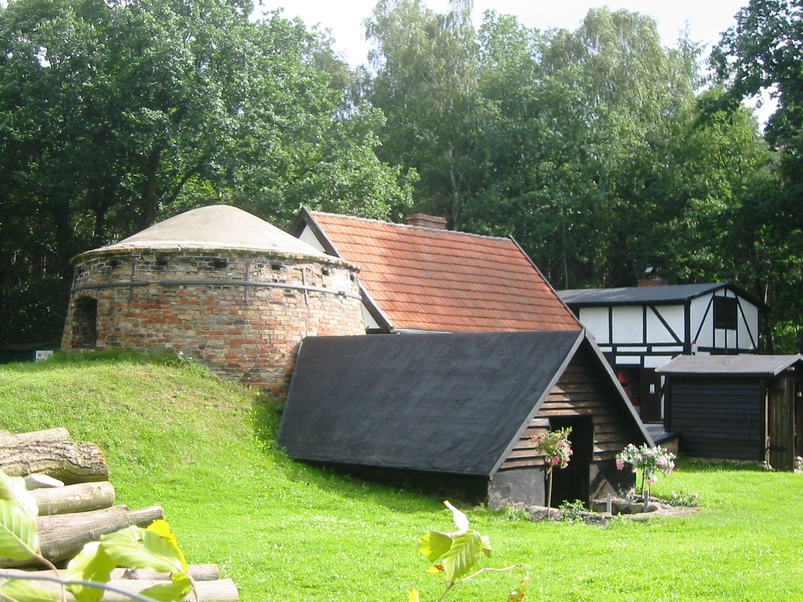 Large tar oven at Wiethagen Forest and Charcoal Burning Lodge in Rostock-Wiethagen